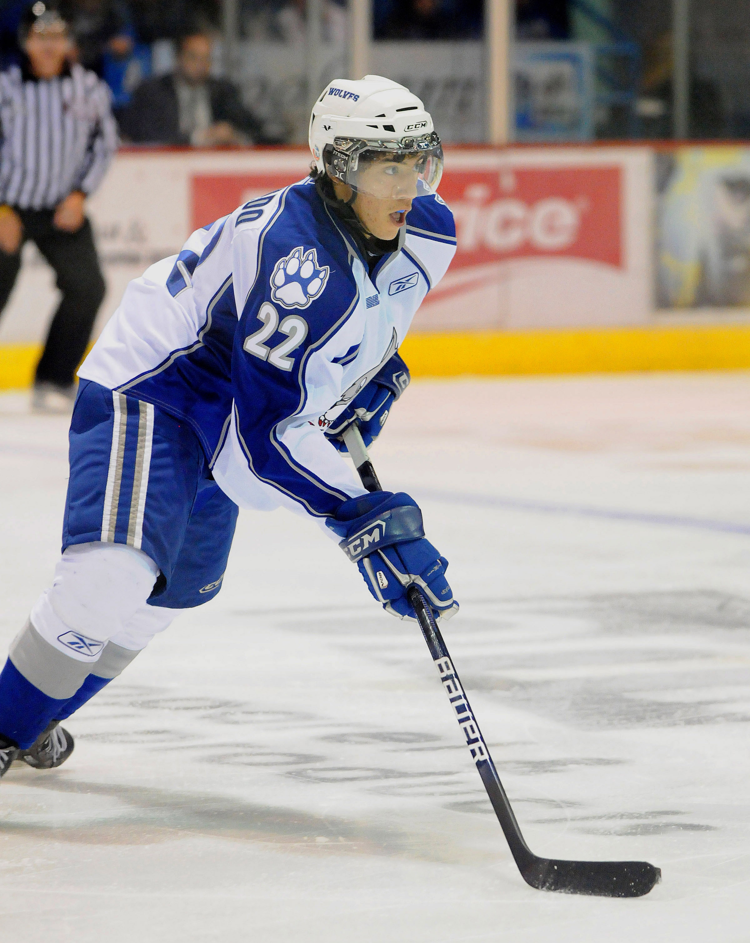 Frankie corrado in game action for the Sudbury Wolves of the Ontario Hockey League.